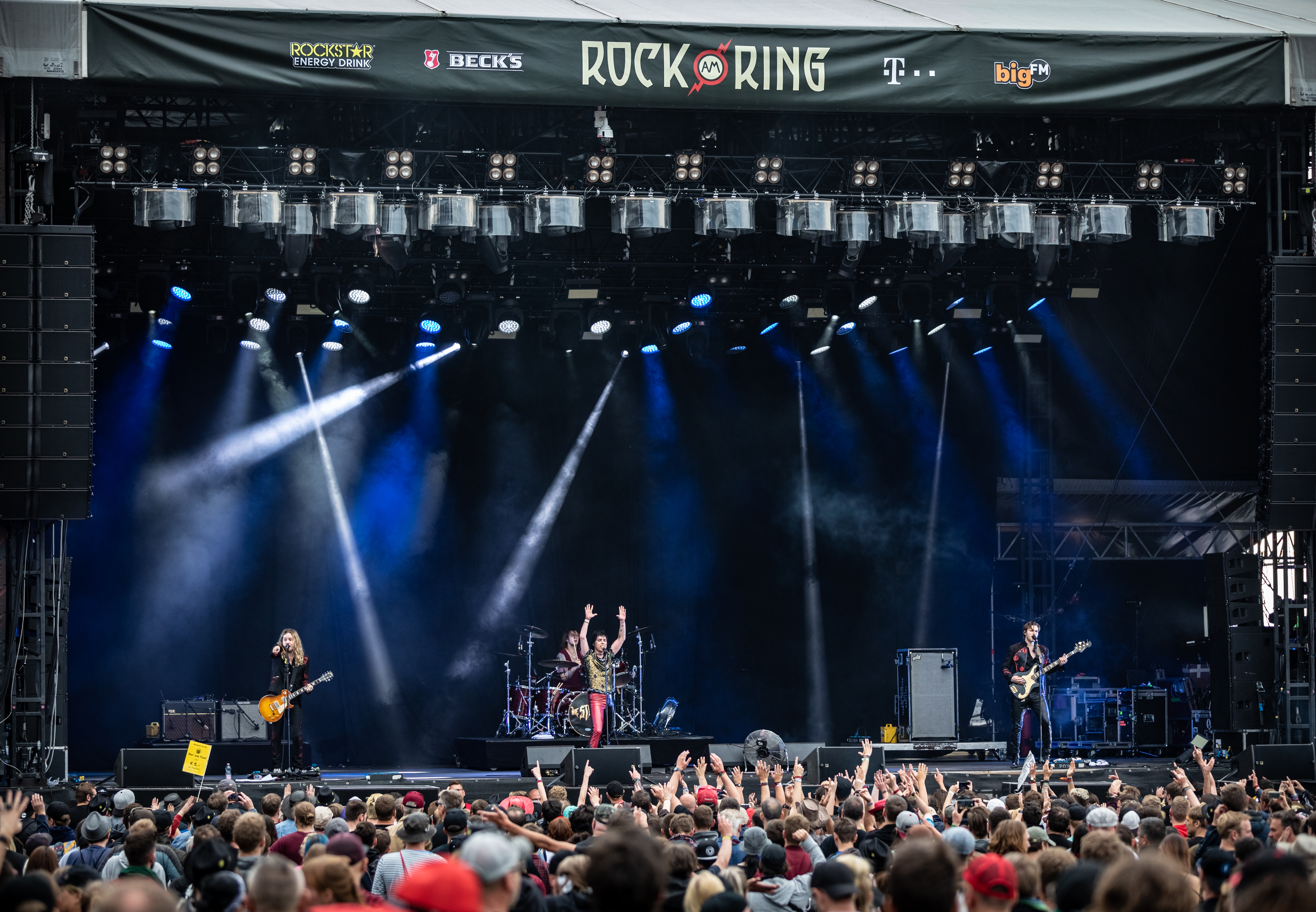 The Struts - Rock am Ring 2019